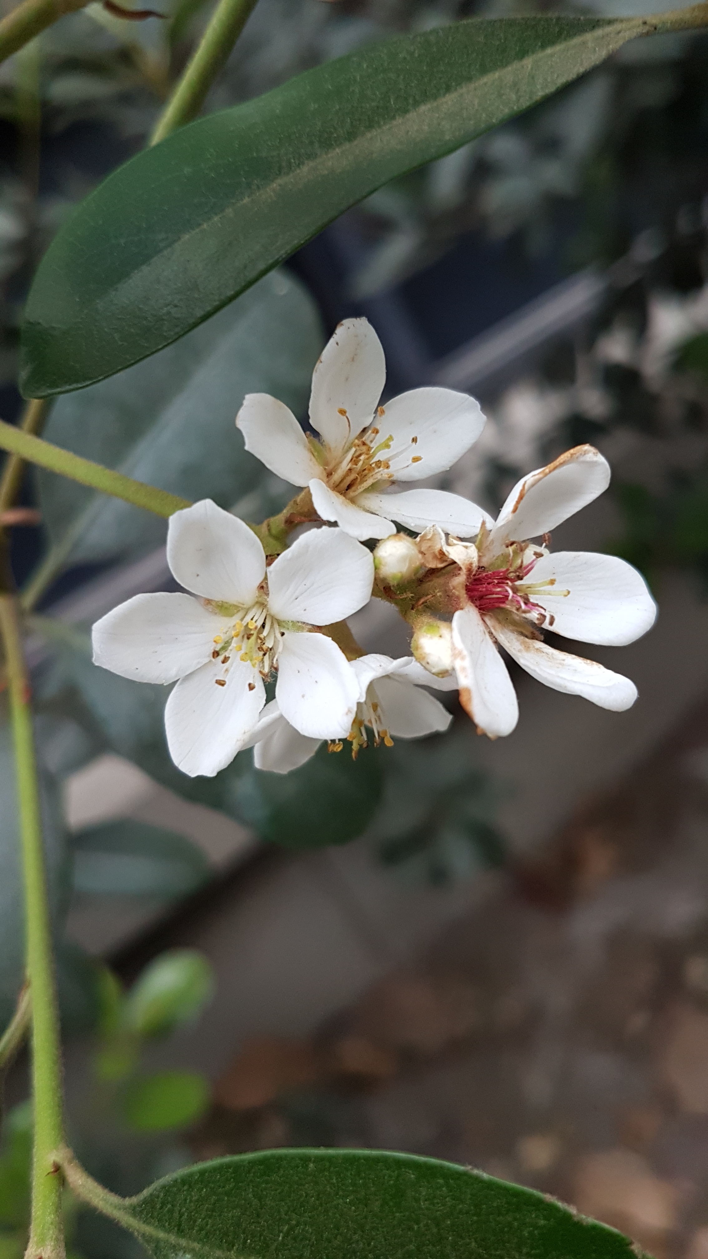 Rhaphiolepis indica var. umbellata flower